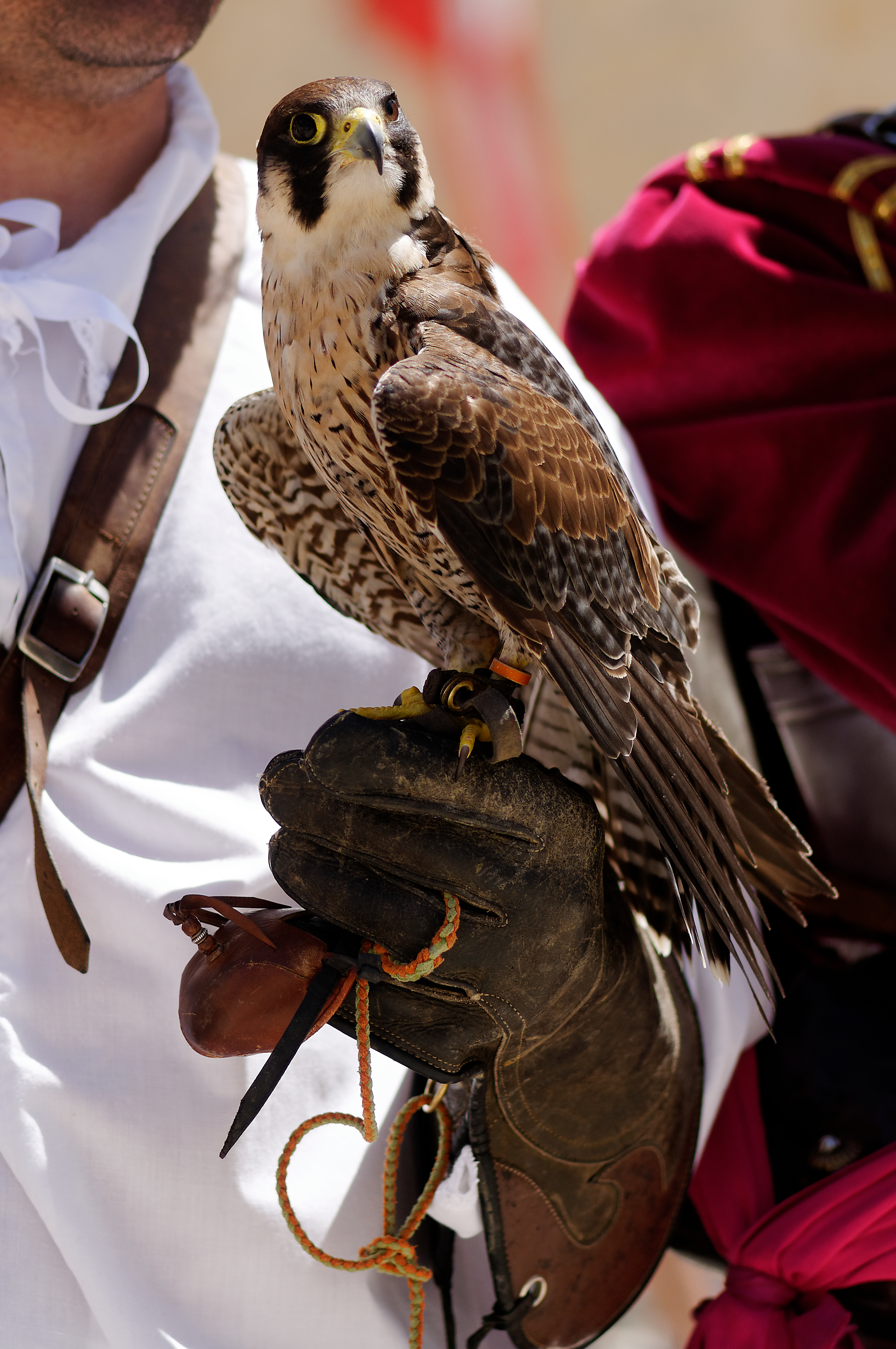 In Guardia parade at Fort St. Elmo, reenacting the inspection of the fort and its garrison by the Grand Bailiff of the Order of the Knights of St. John in charge of military affairs.